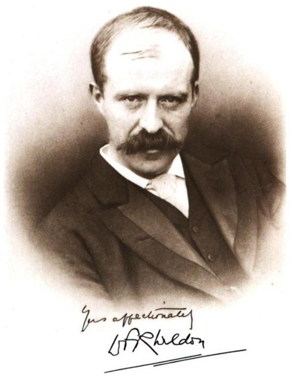 Picture of Walter F. R. Weldon (1860-1906), the English biologist and biometrician.